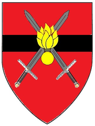 SANDF Engineer Formation emblem